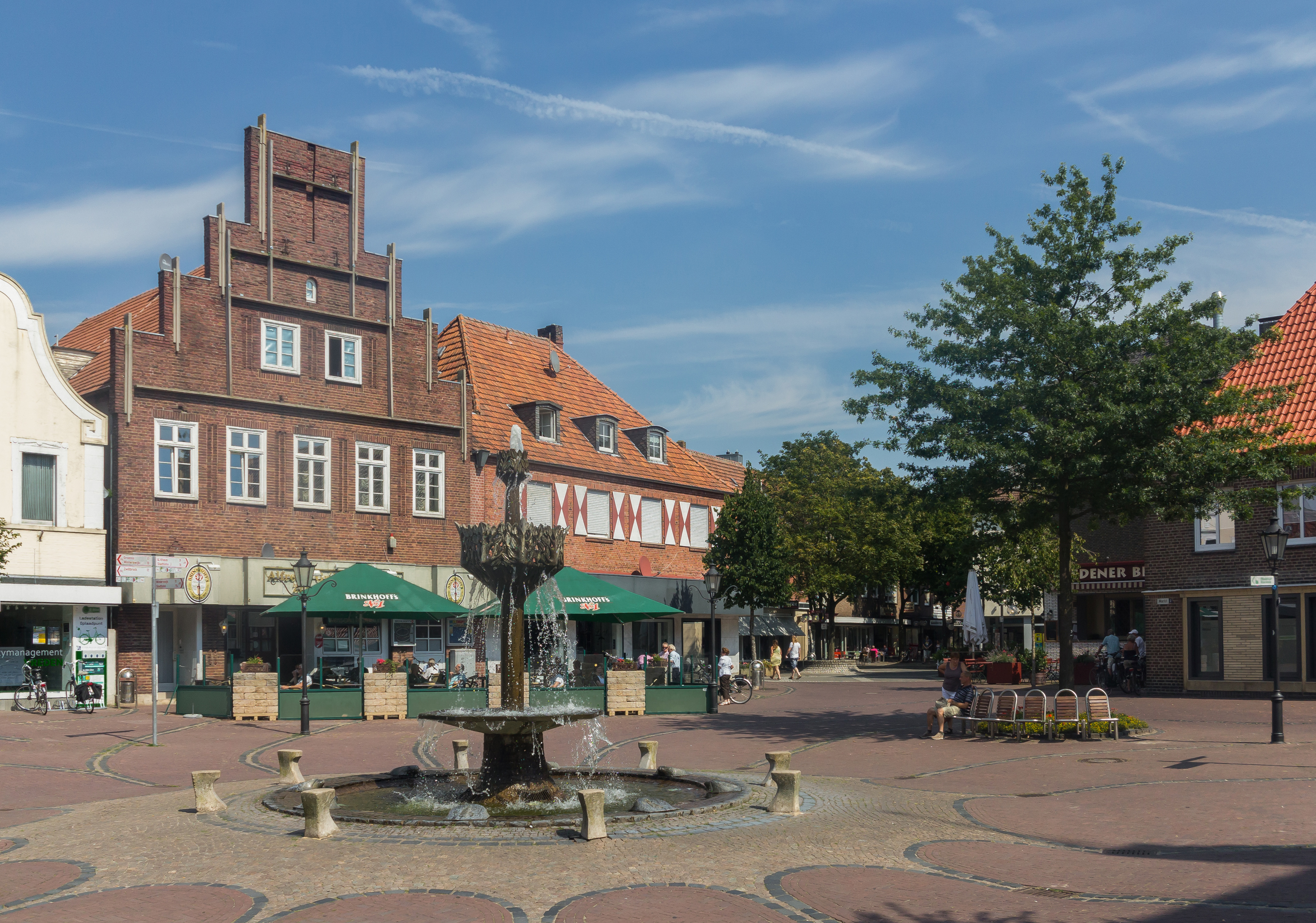 Vreden, fontain on den Markt